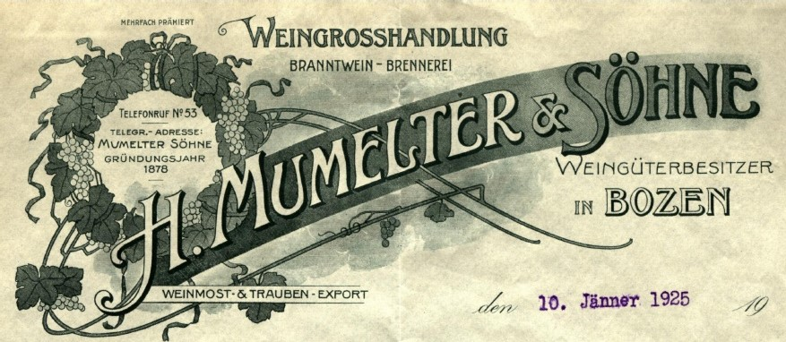 Business letter of a South Tyrolean wine seller from 1925